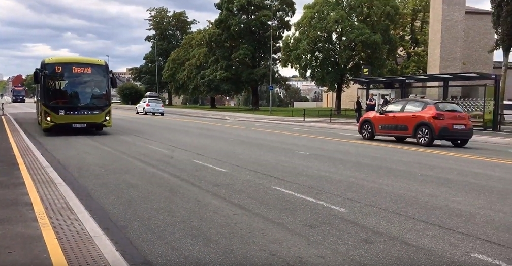 Heuliez GX437 newly delivered in 2019 driving on Line 12 in Trondheim to the main University at Dragvoll.